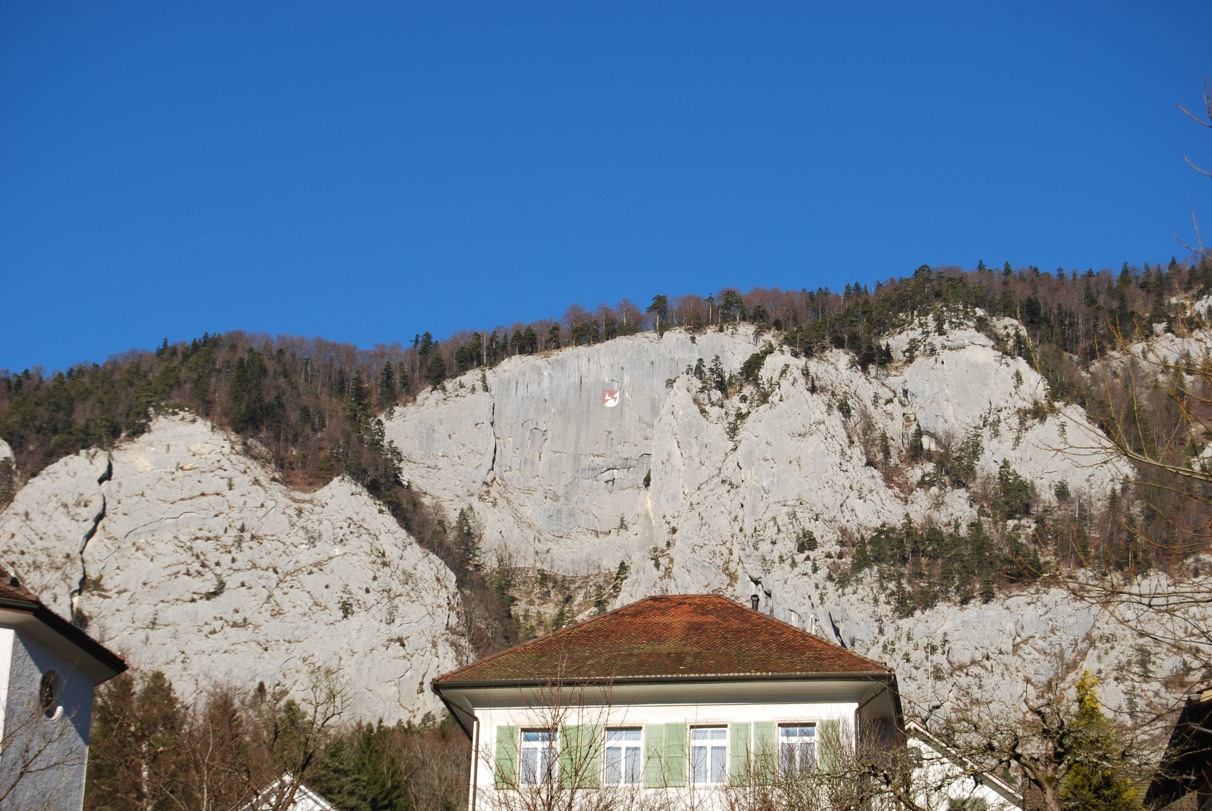 Fluh at Welschenrohr, canton of Solothurn, SwitzerlandEsperanto: Fluh en Welschenrohr, Kantono Soloturno, Svislando